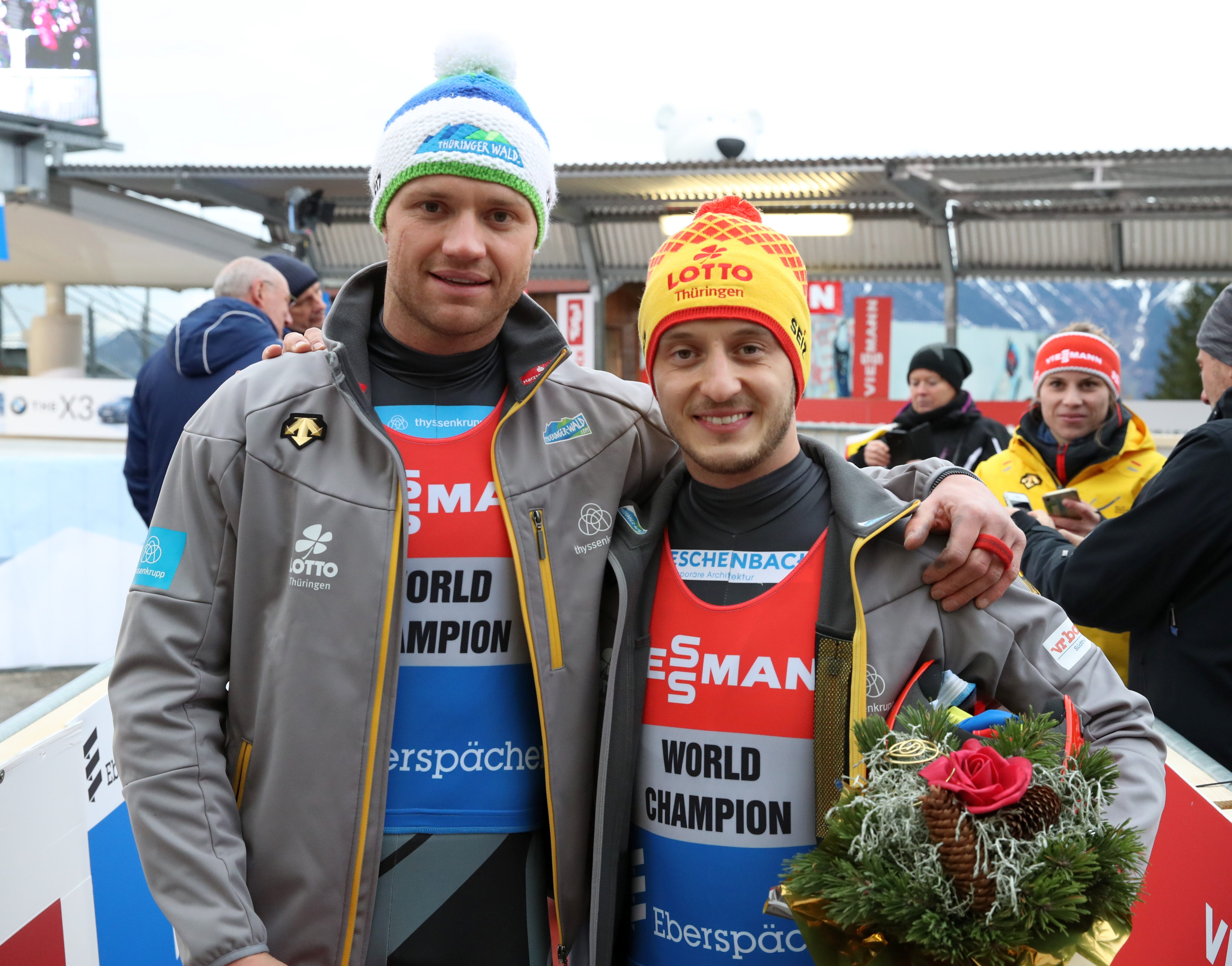 Doubles World Cup race at the 2019/20 Luge World Cup in Innsbruck-Igls